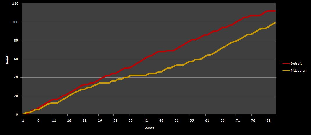 Graph of the Pittsburgh Penguins and the Detroit Red Wings points as the 2008–09 season progressed. The two teams met in the 2009 Stanley Cup Finals.